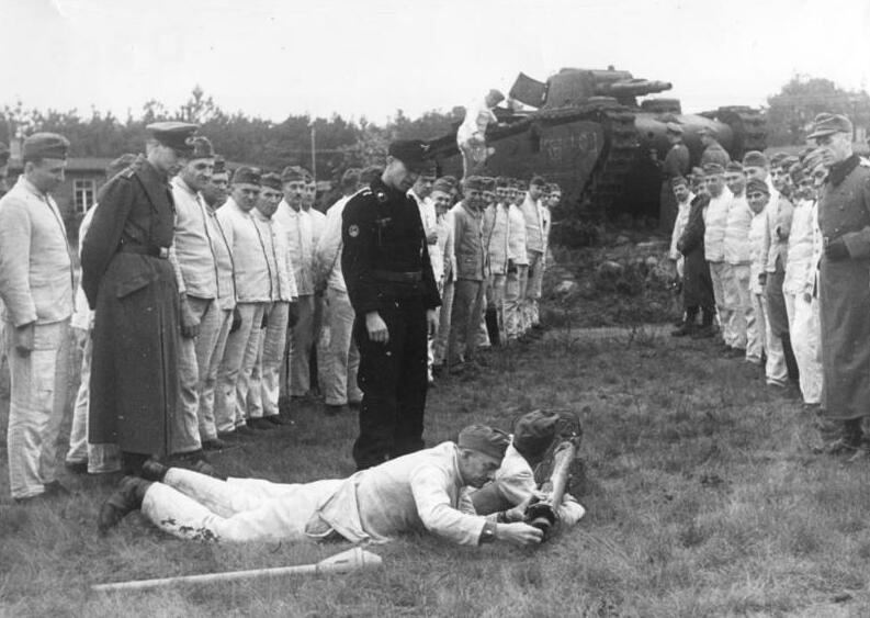 German Grosstraktor experimental tank used for Volkssturm anti-tank training